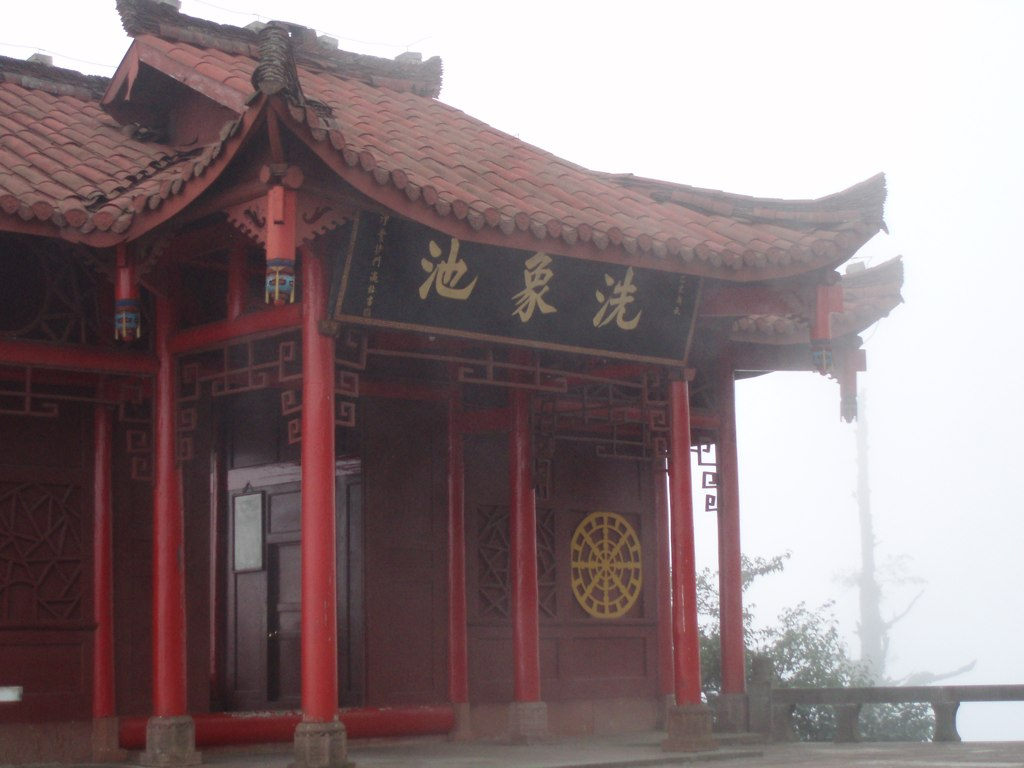 Elephant Bathing Pool on Emei Shan, Sichuan, China